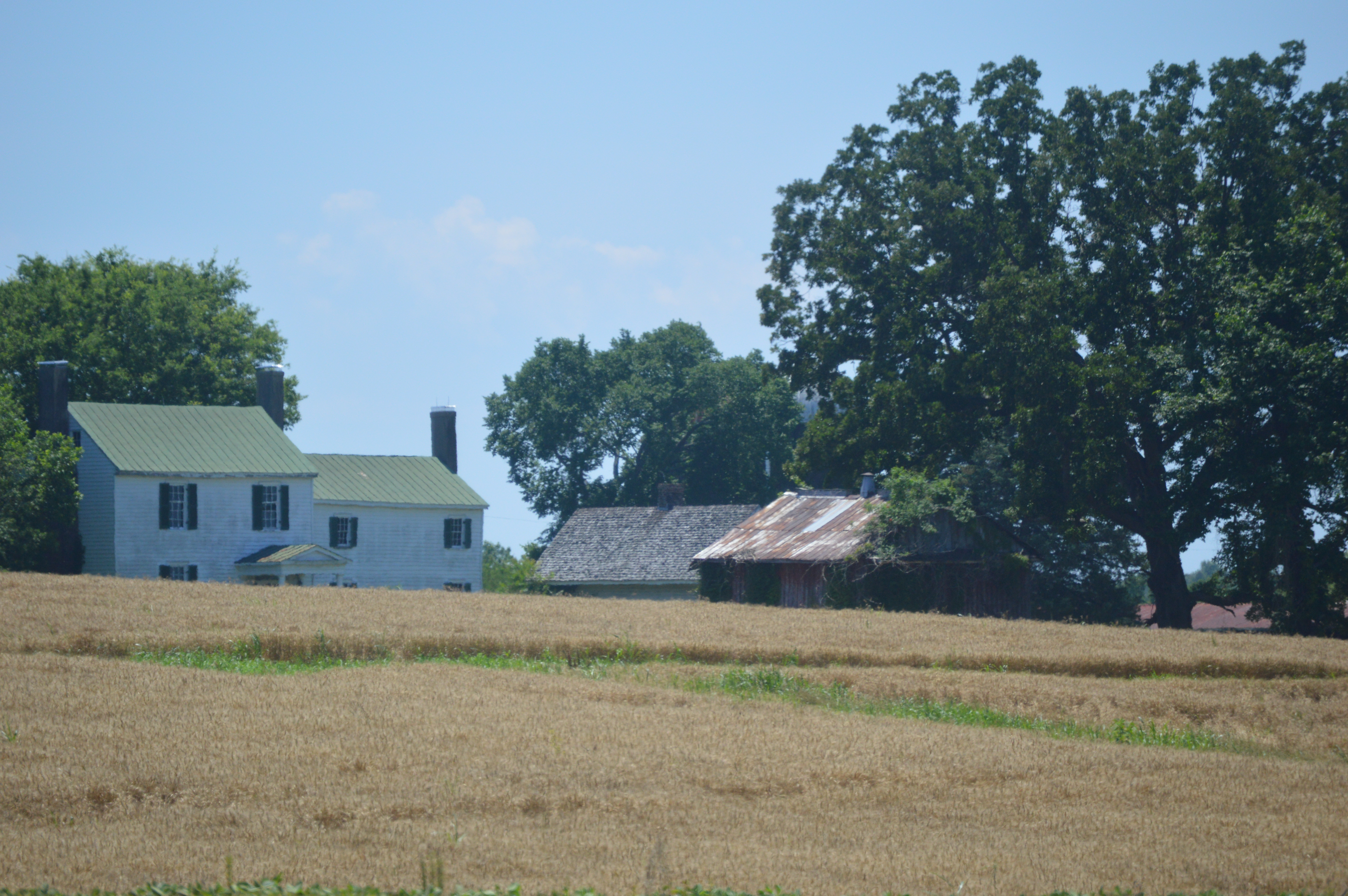 Distant view from Henderson Road of the farmhouse (built 1800) and some of the outbuildings at the Brandon Plantation, located on Coleman Drive southwest of Turbeville in Halifax County, Virginia, United States. The farmstead is listed on the National Register of Historic Places.